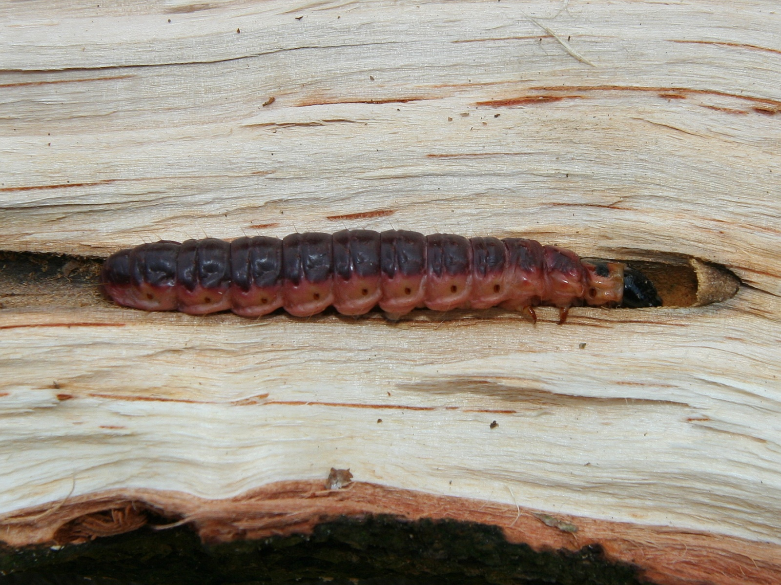 Caterpillar of a goat moth (Cossus cossus) in its burrow